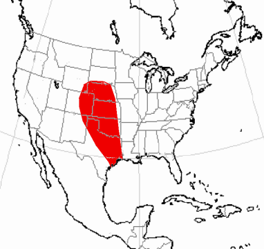 Range of Lambdoceras based on fossil finds